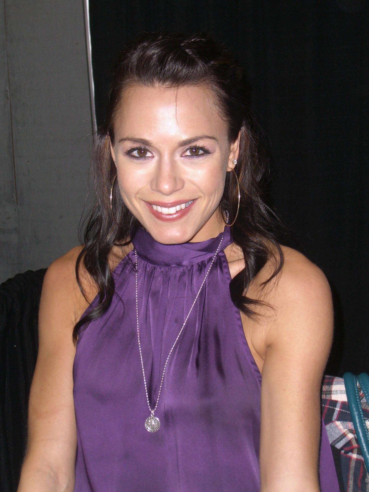 Model Rachelle Leah at the Big Apple Convention in Manhattan. Photographed by Luigi Novi. This photo may only be used if the photographer is properly credited. (See Licensing information below.)